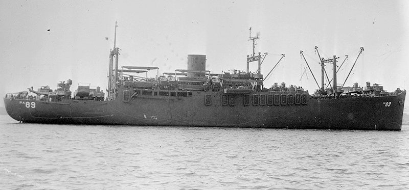 The U.S. Navy attack transport USS Frederick Funston (APA-89) underway, circa in 1945.